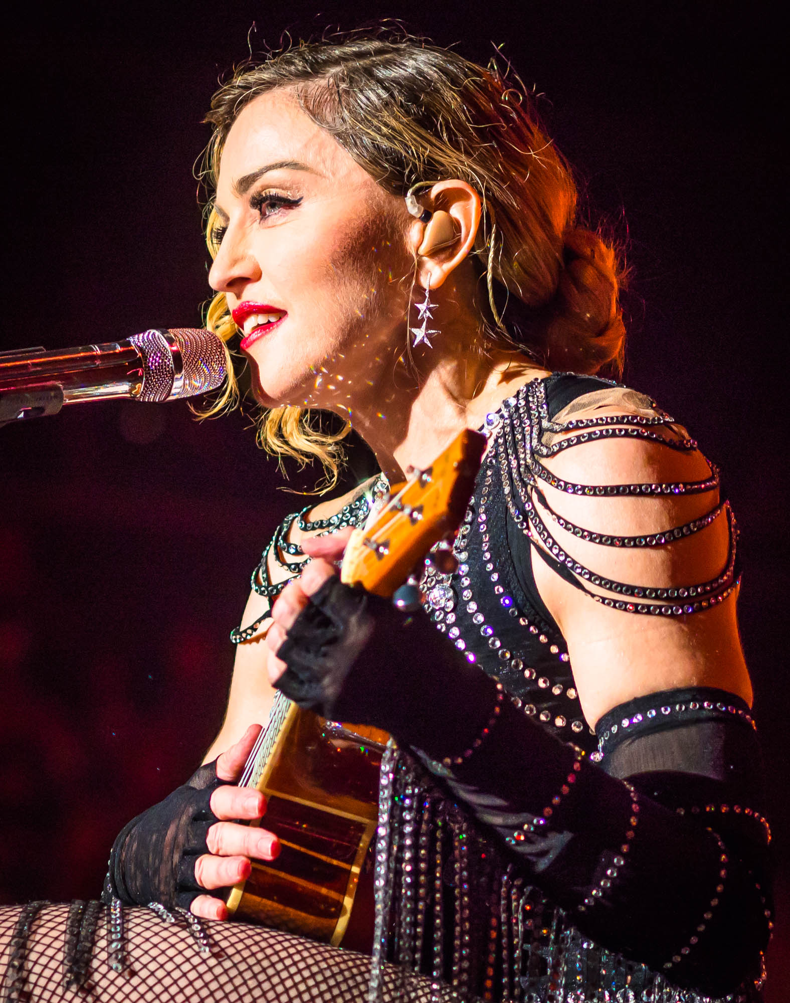 Rebel Heart Tour